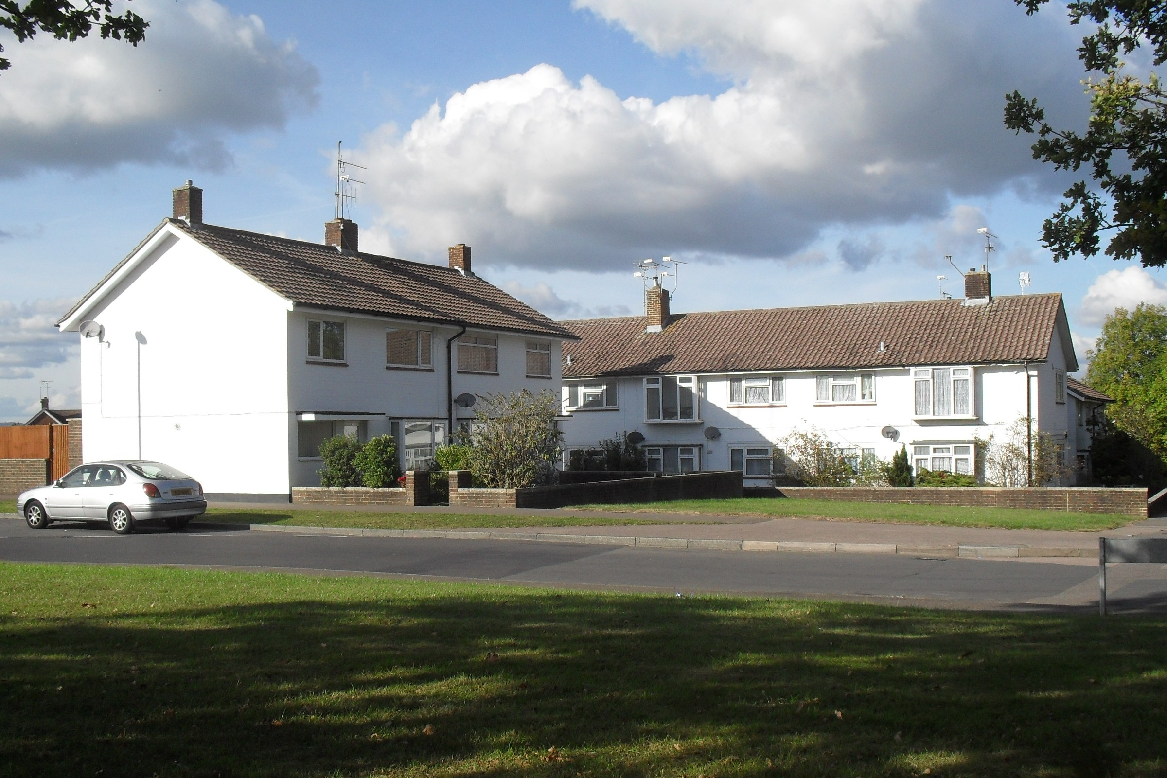 Late 1950s housing in Paddockhurst Road in Gossops Green, one of the 13 neighbourhoods in Crawley New Town, West Sussex, England.